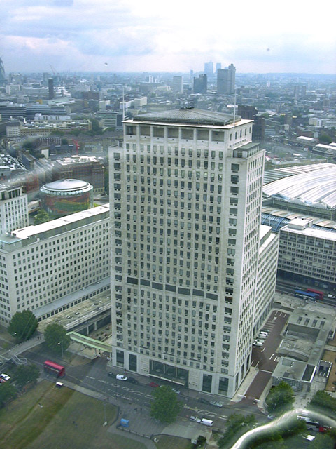 Shell Centre Headquarters of Shell UK Ltd. Taken from The London Eye. See website Shell_Centre